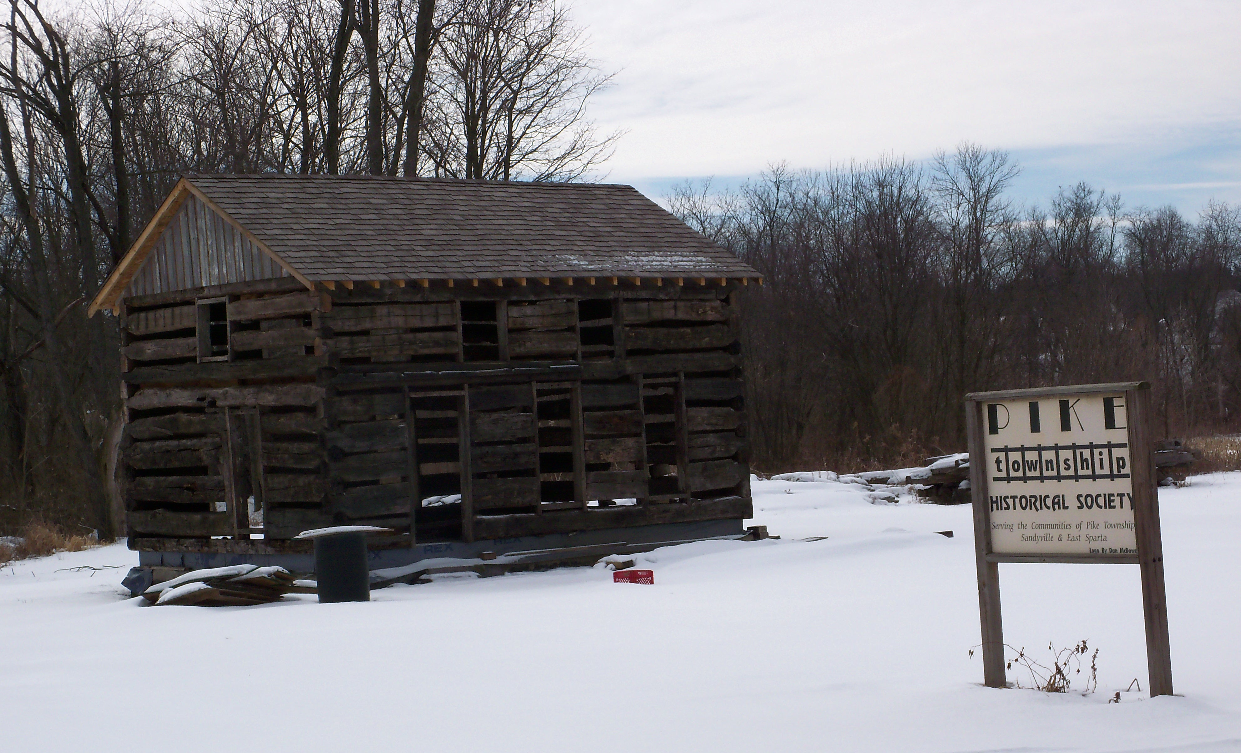 Pike Township historical structure, Stark County, Ohio